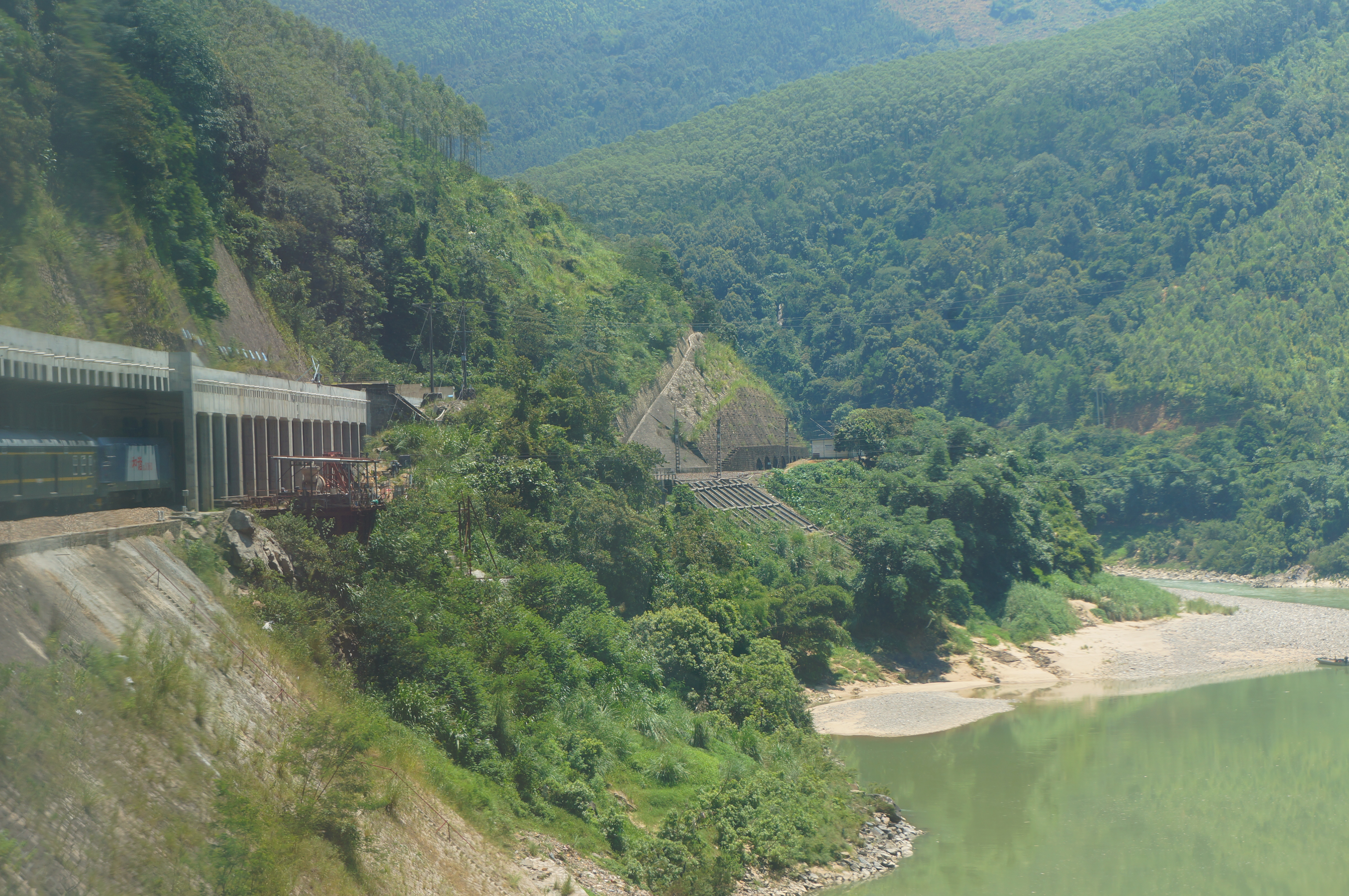 201708 Yingtan-Xiamen Railway in Hua'an (Jinshanqiao-Luoxi interval)